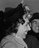 Side view of Marion Carpenter extracted from a Christmas card (Photograph 58-649) sent to President Truman in 1949 from Marion Carpenter.